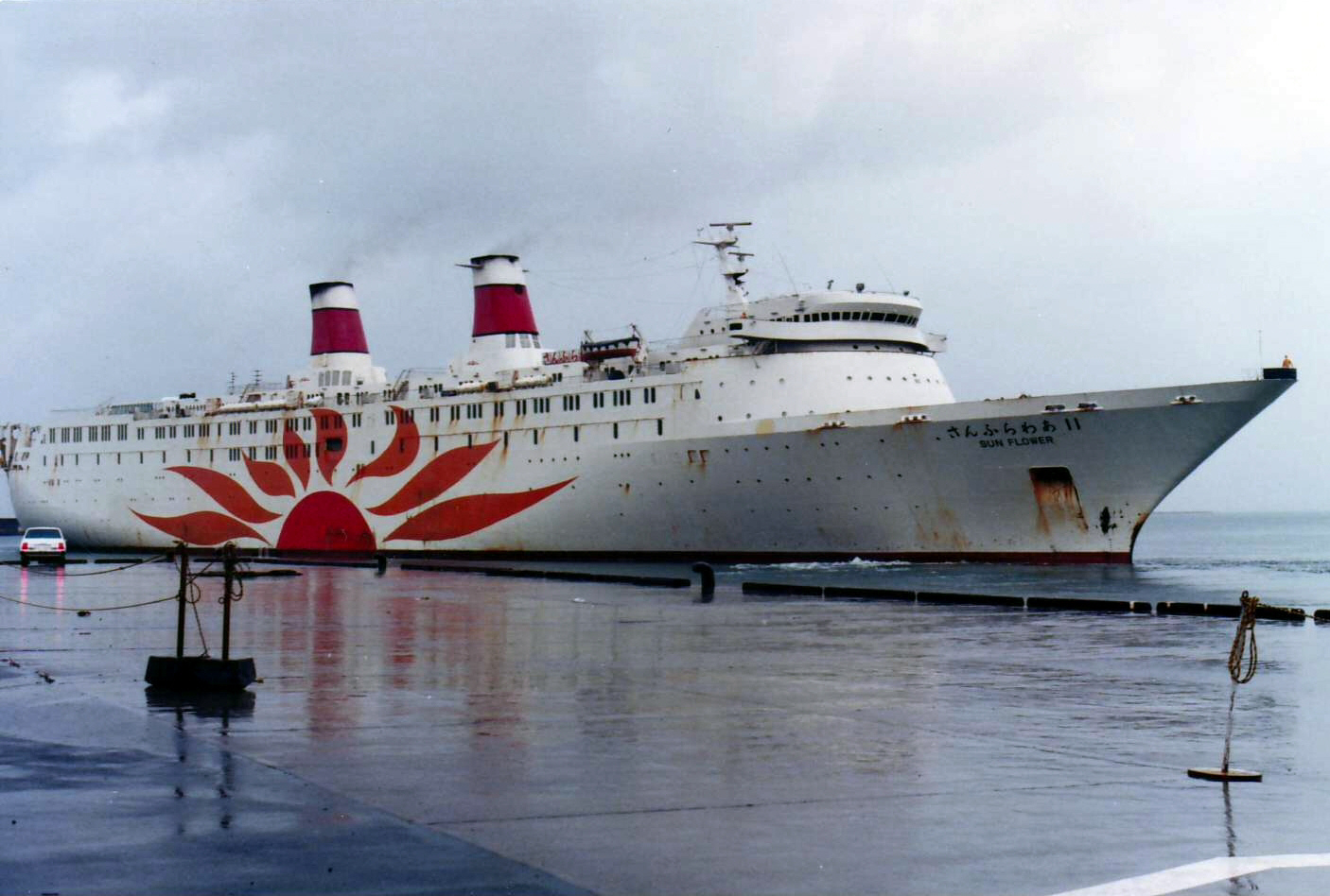 Japanese Ro-Pax Ferry, Sunflower 11 sails Shibushi port. Sold to Philippines and renamed as MV Princess of the Orient in 1993. IMO Number: 7373561